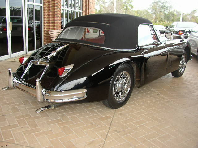 Jaguar XK150 (Rear View)